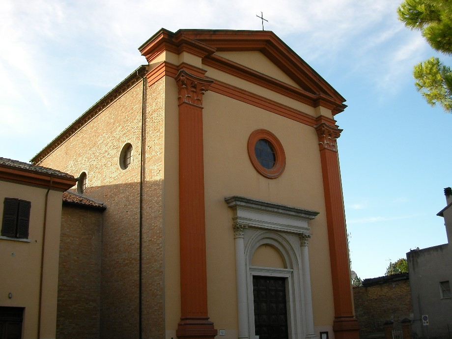 External of the church of the Immaculate Conception to Coccolia